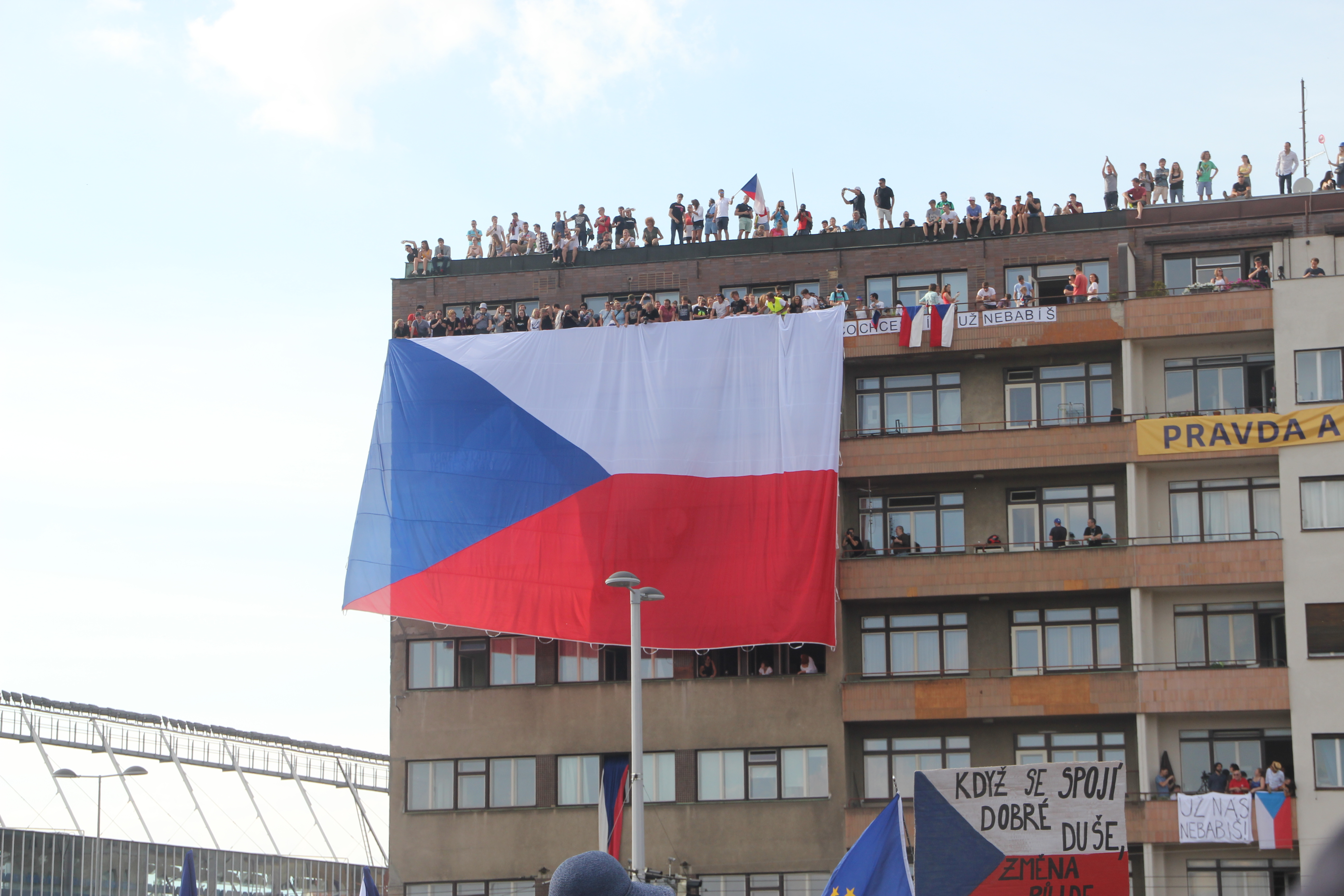 Demonstration against the government of Andrej Babiš at Letná in Prague (Czech Republic) on 23 June 2019